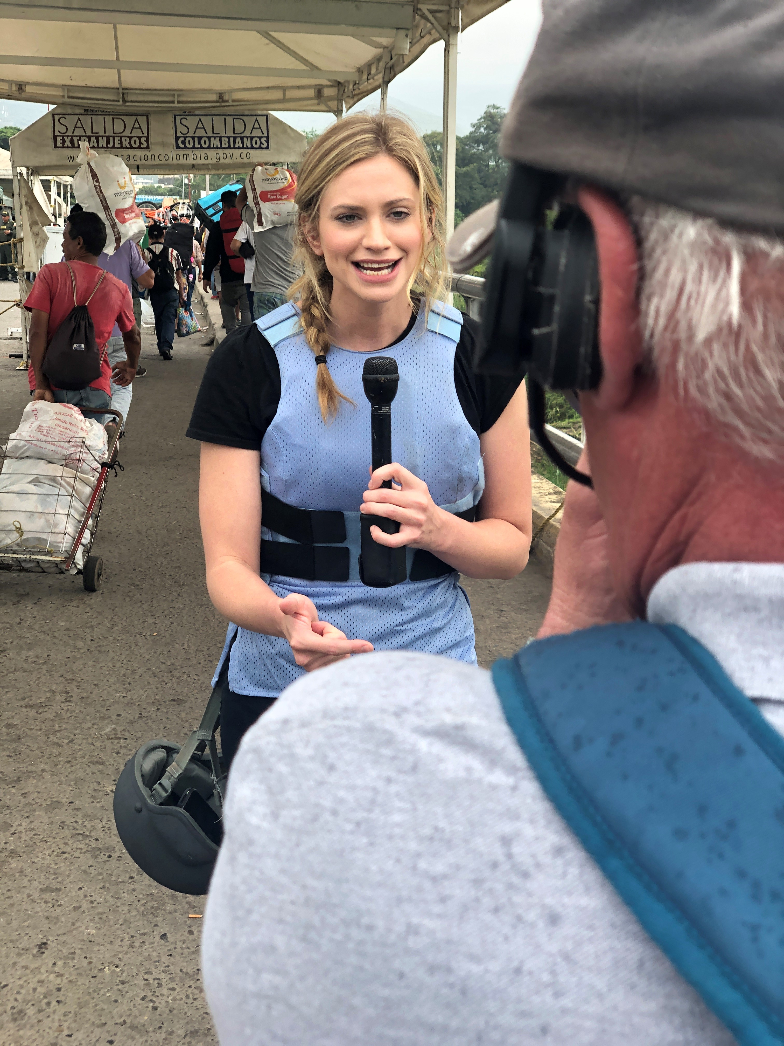 Ellison Barber reporting for Fox News Channel on the unrest and humanitarian crisis in Venezuela. This photo was taken during her coverage in May 2019, while she was working across the border in Cucuta, Colombia.